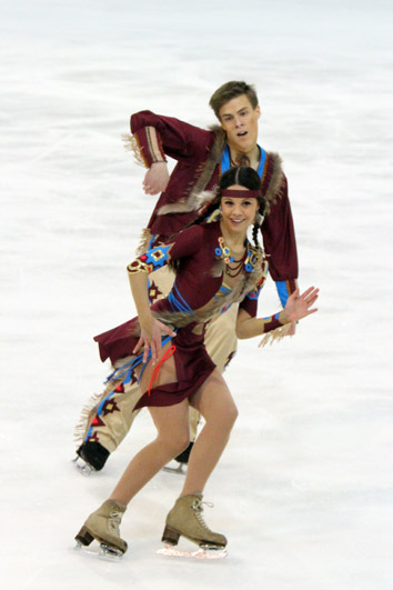 2010 World Junior Figure Skating Championships - Elena Ilinykh and Nikita Katsalapov